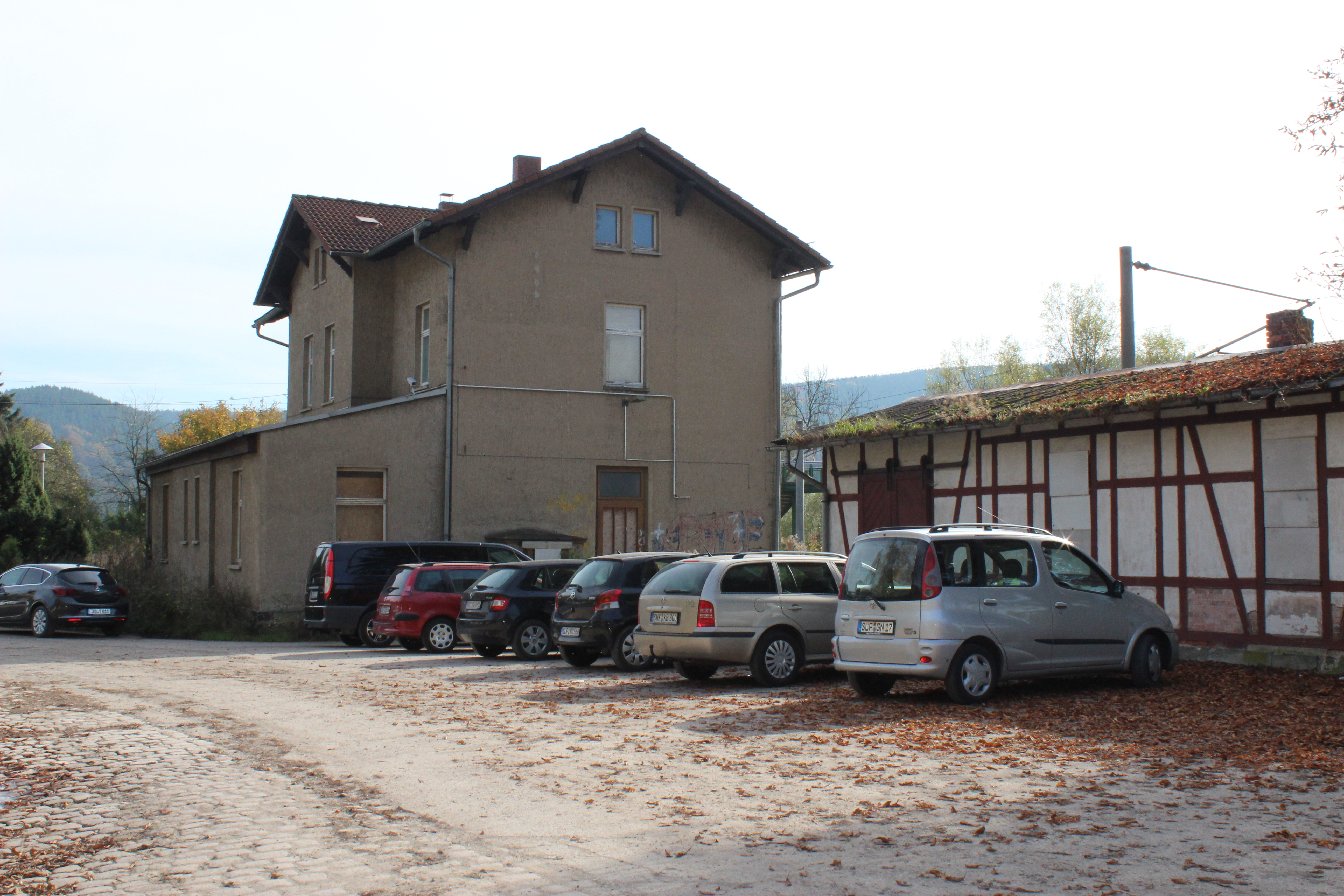 train station Uhlstädt, station building